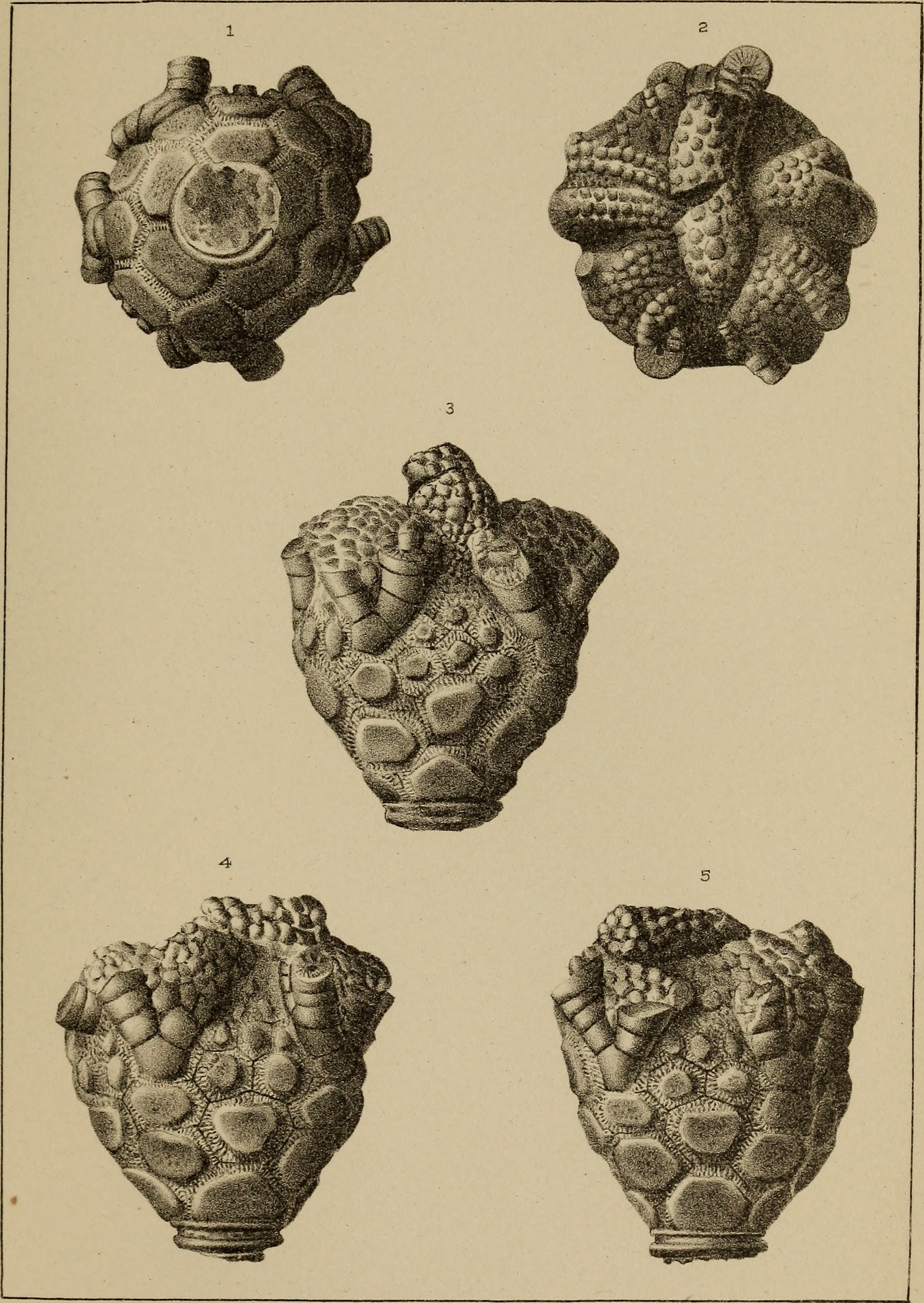 Title: Annual report Year: 1902 (1900s) Authors: New York State Museum Subjects: New York State Museum; Science; Science Publisher: Albany : University of the State of New York Text Appearing Before Image: CHAZlt" FOSSILS Rep Paleontologist 1903 Plate 2 Text Appearing After Image: G.S.Barkentiii.,del W.S.Barkentii-i iith